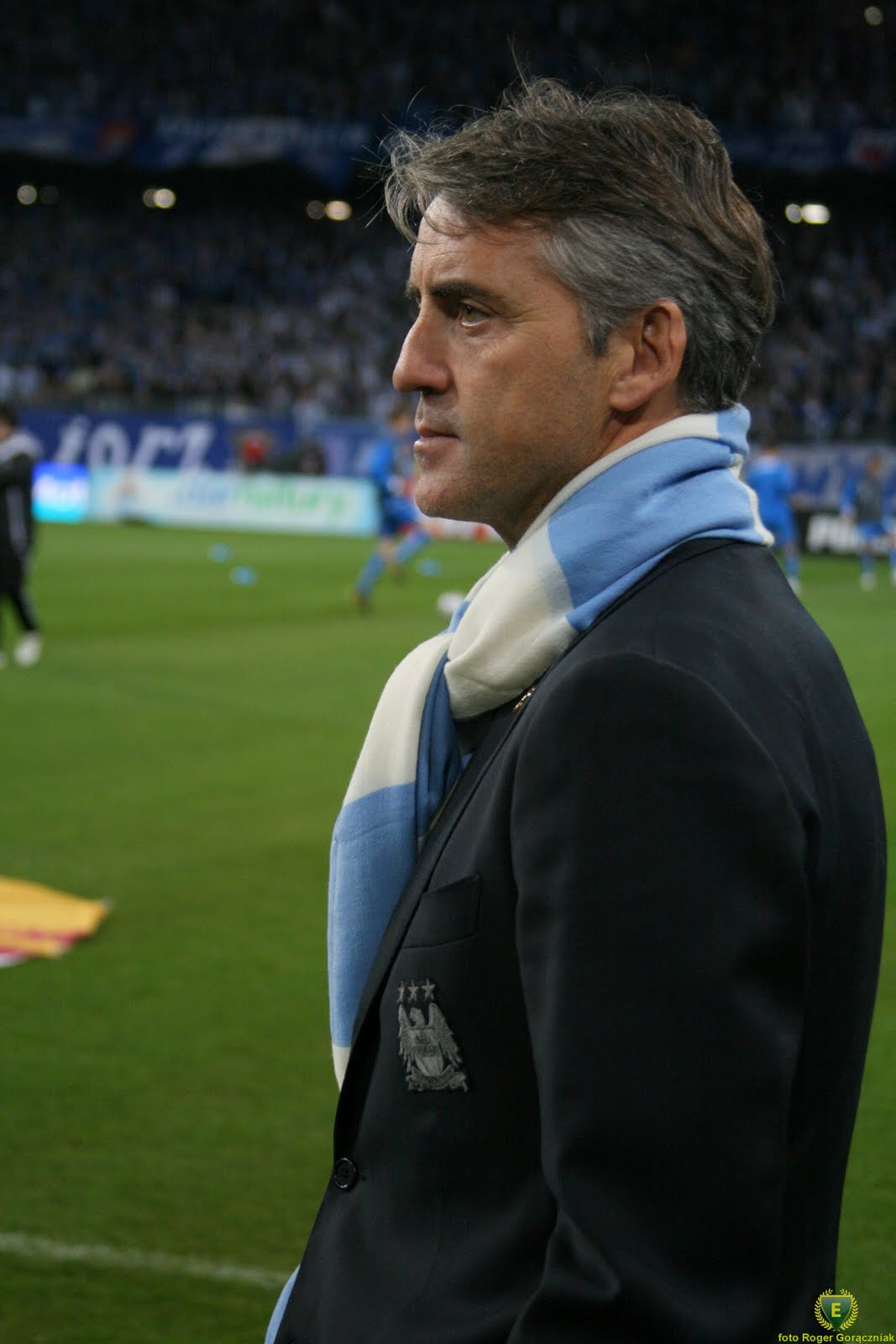 Roberto Mancini - side